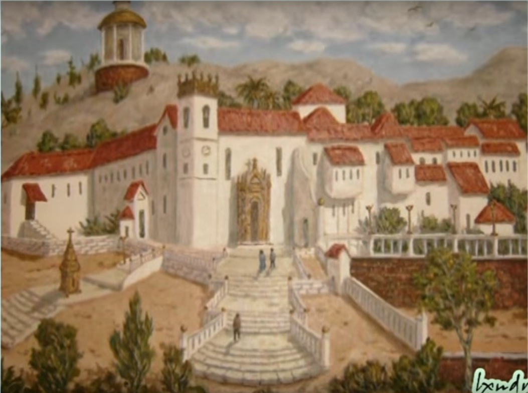 Real Colégio de Educação de Chorão